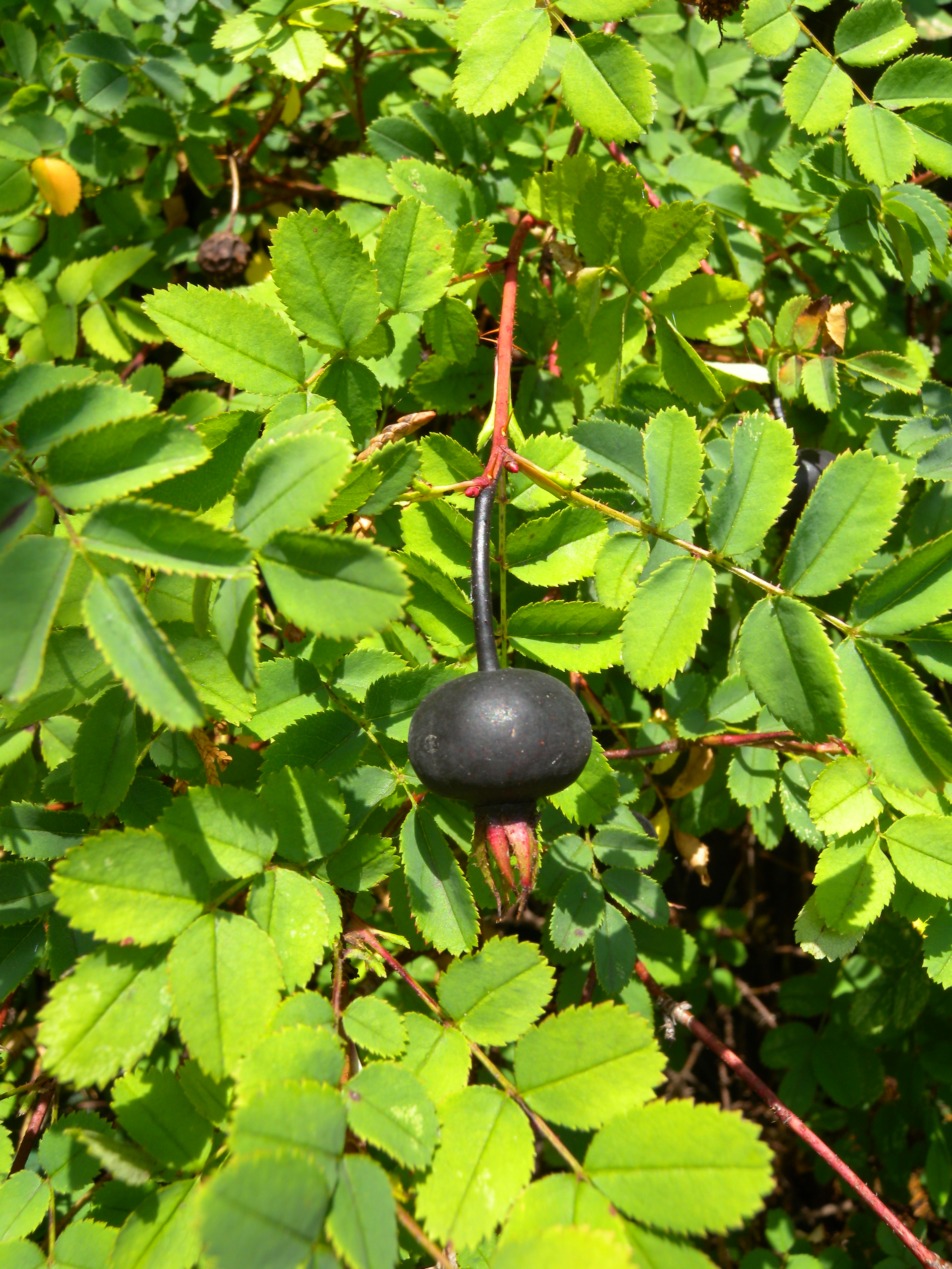 Fruit of Rosa pimpinellifolia (Rosaceae), Botanical Garden Bern, Switzerland